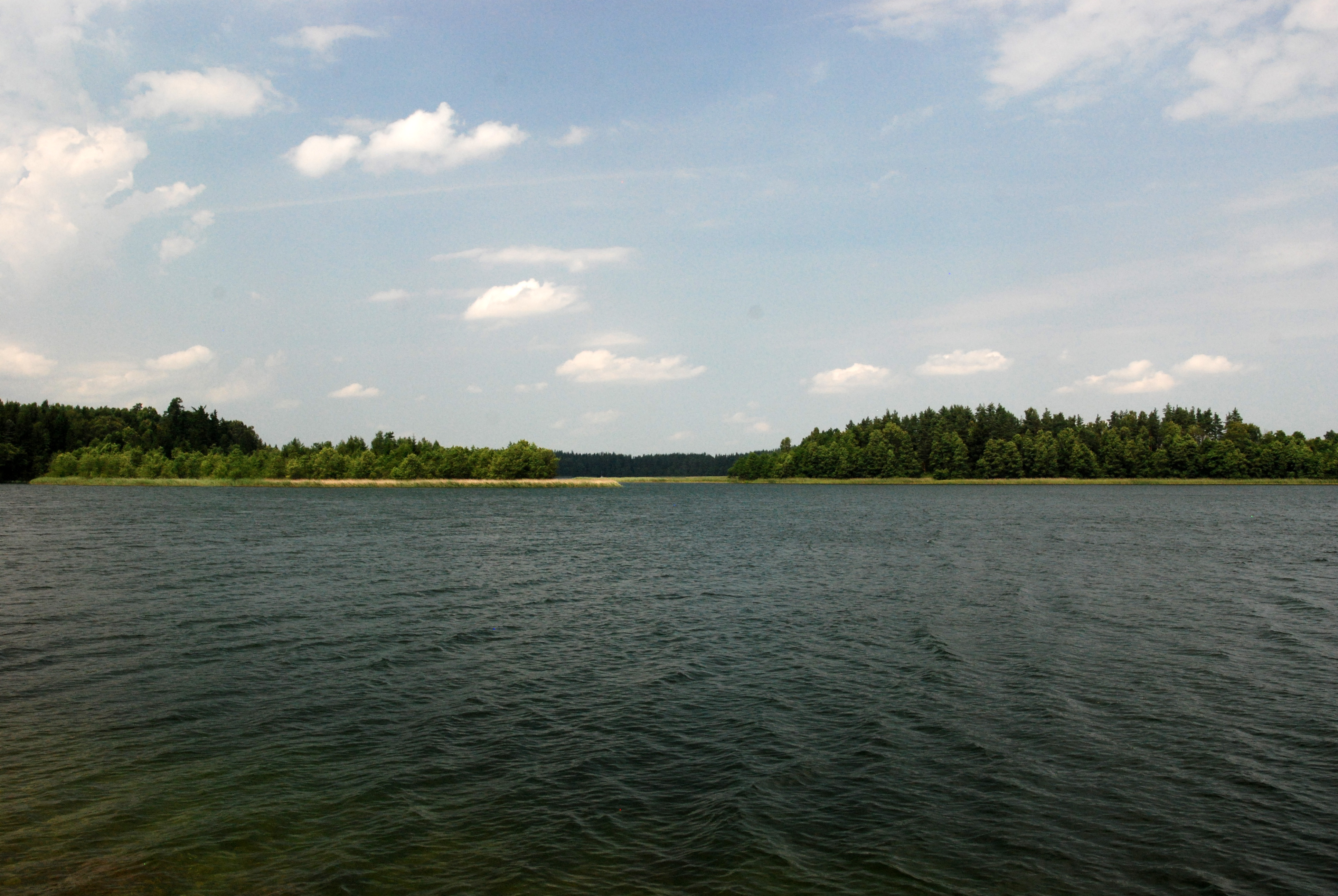 This photo from Podlaskie Voievodeship was taken during Polish Wikiexpedition 2009 set up by Wikimedia Polska Association. The making of this document was supported by Wikimedia Polska. Jezioro Wigry